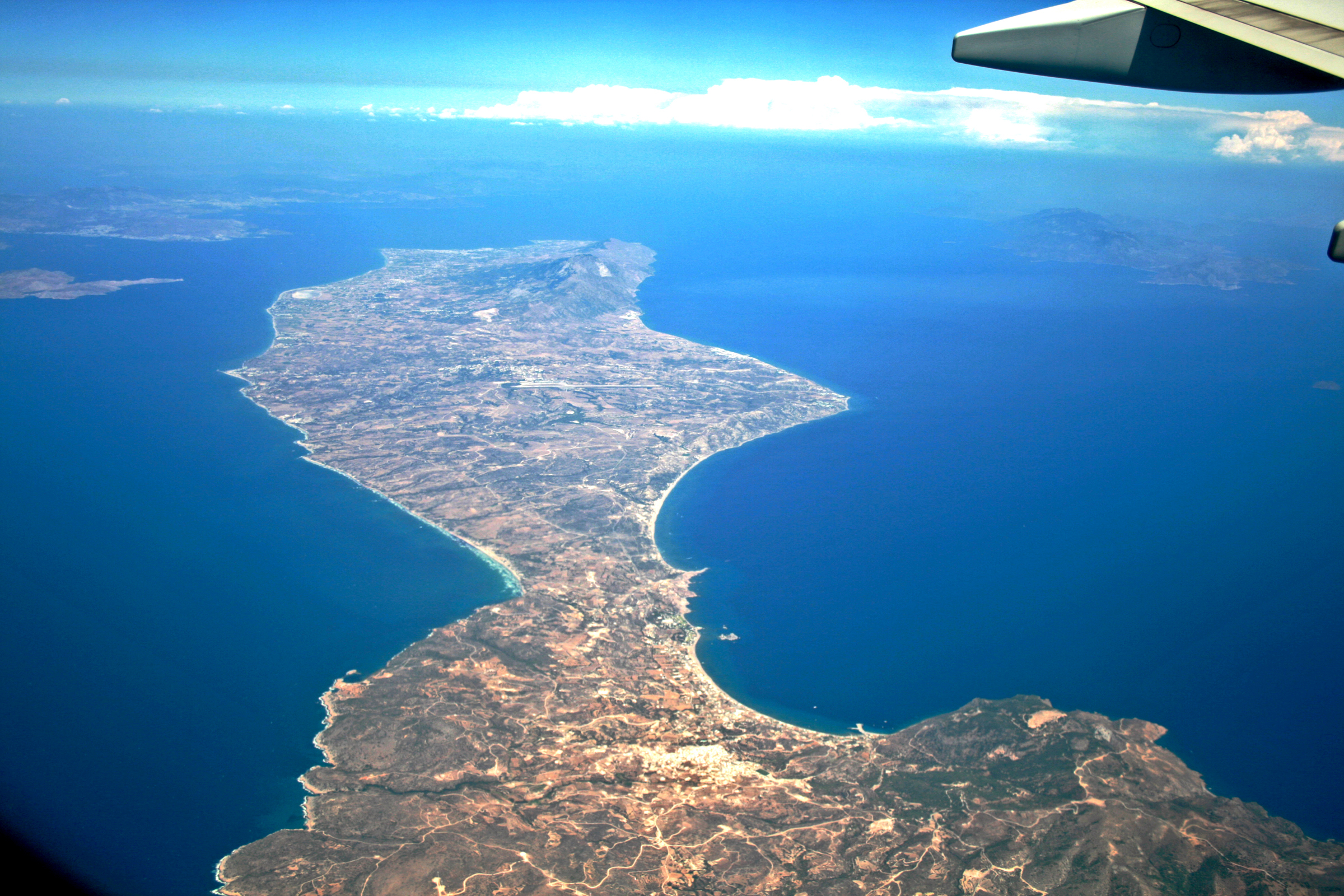 Image from airplain waiting for landing on airport near Antimachia town on Kos island, Greece. View from the Kefalos peninsula still Kos city. In front left the Bay of Kochylari, opposite the Bay of Kefalos. The "neck", which forms both bays, is clearly recognizable and as a result the Kefalos peninsula is clearly separated from the rest of the island of Kos. The Dikeos (mountain) is clearly visible on the right, in the background the Turkish coast (mainland).